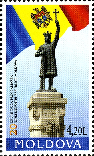 Stamps of Moldova